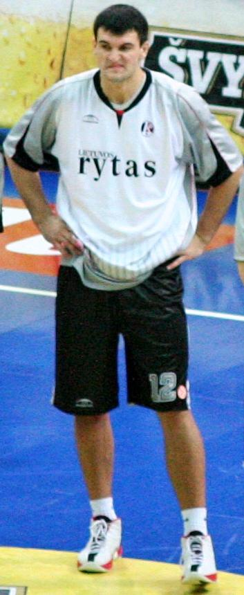 Mhichailas Anisimovas with Lietuvos rytas Vilnius basketball club uniform in Siemens arena.